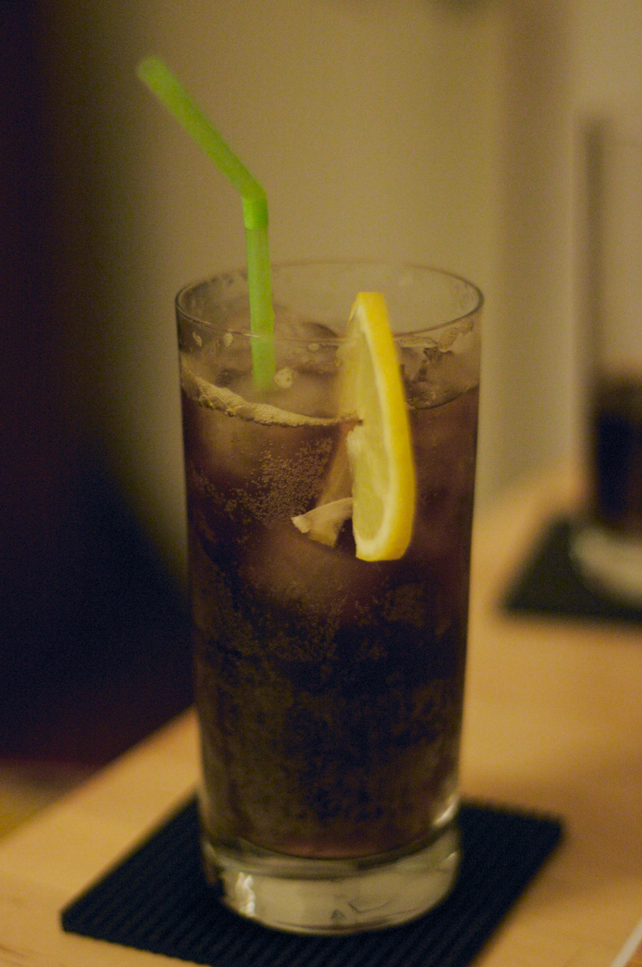 Long Island Iced Tea Cocktail